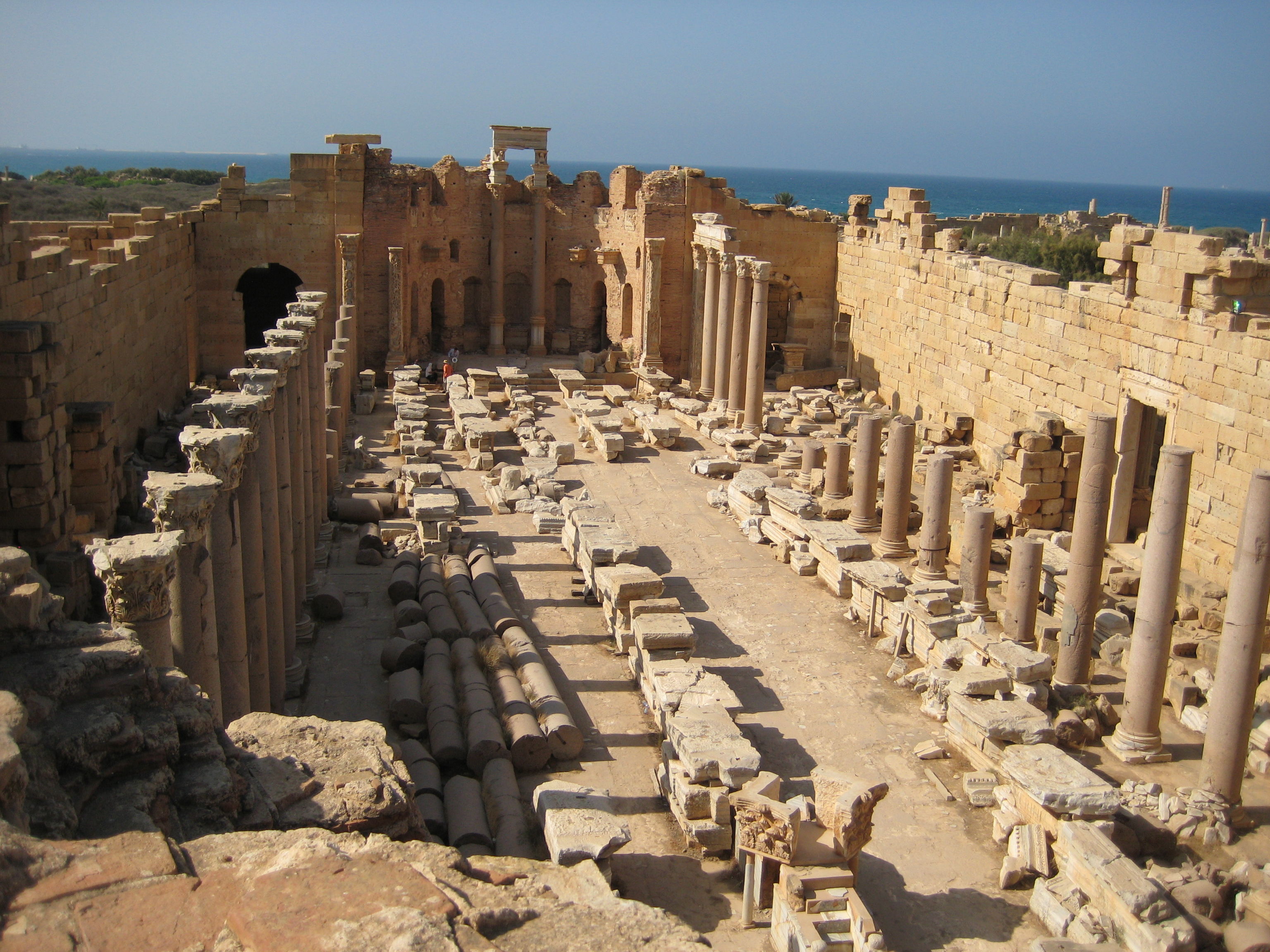 Severan Basilica, Leptis Magna 2nd century A.D. (Libya)